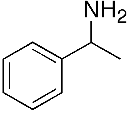 chemical structure of 1-phenethylamine